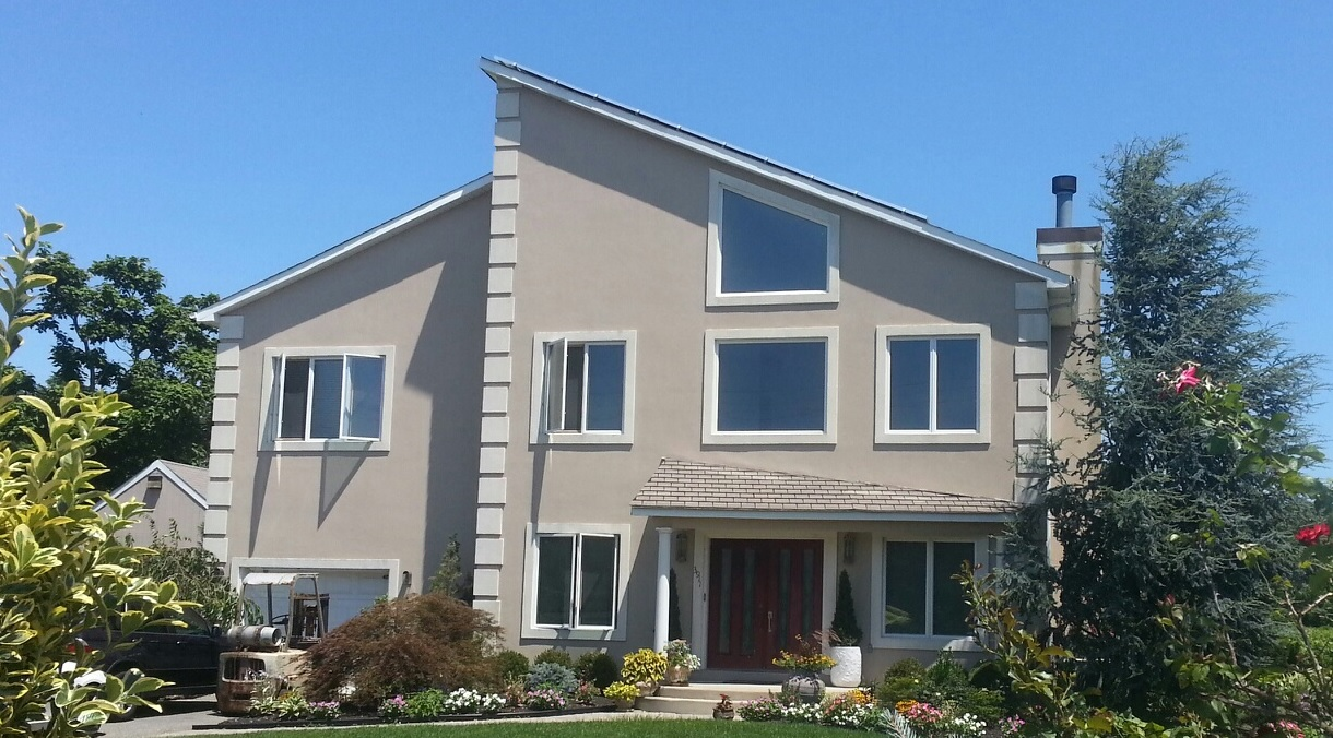 A picture of the family residence at Turdo Vineyards & Winery in North Cape May, NJ. The winery is entirely powered by solar panels on top of the house.